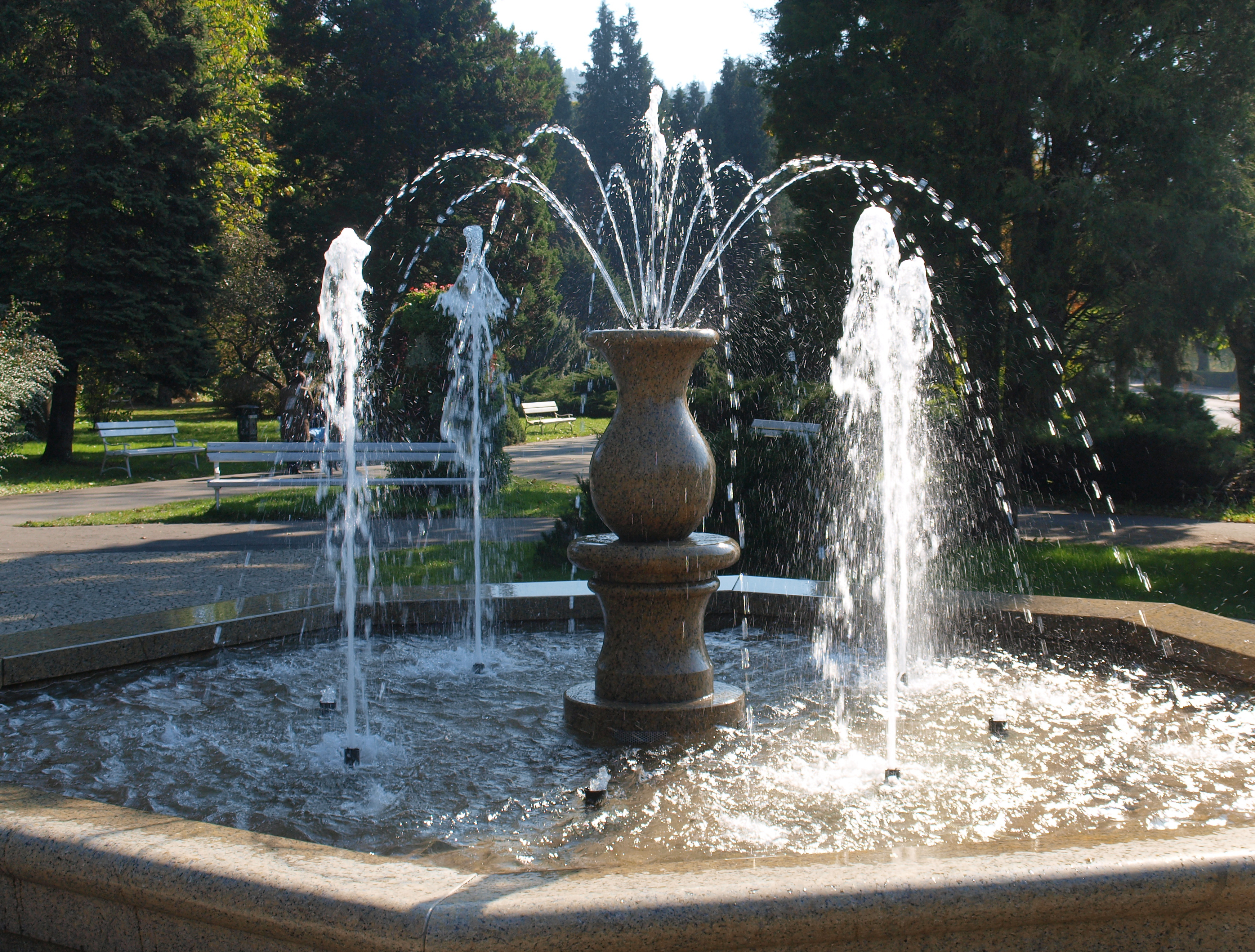 Piwniczna-Zdrój - spa park